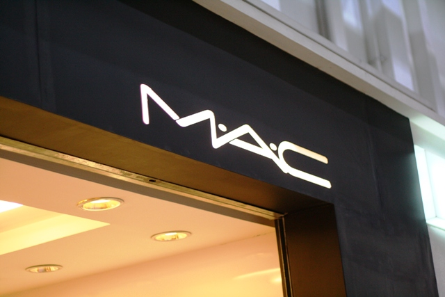 MAC Store in Glorietta Philippines